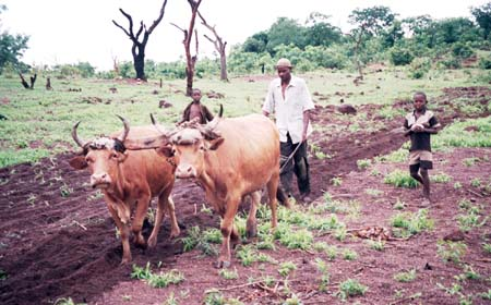 Traditional farming in Guinea, West Africa